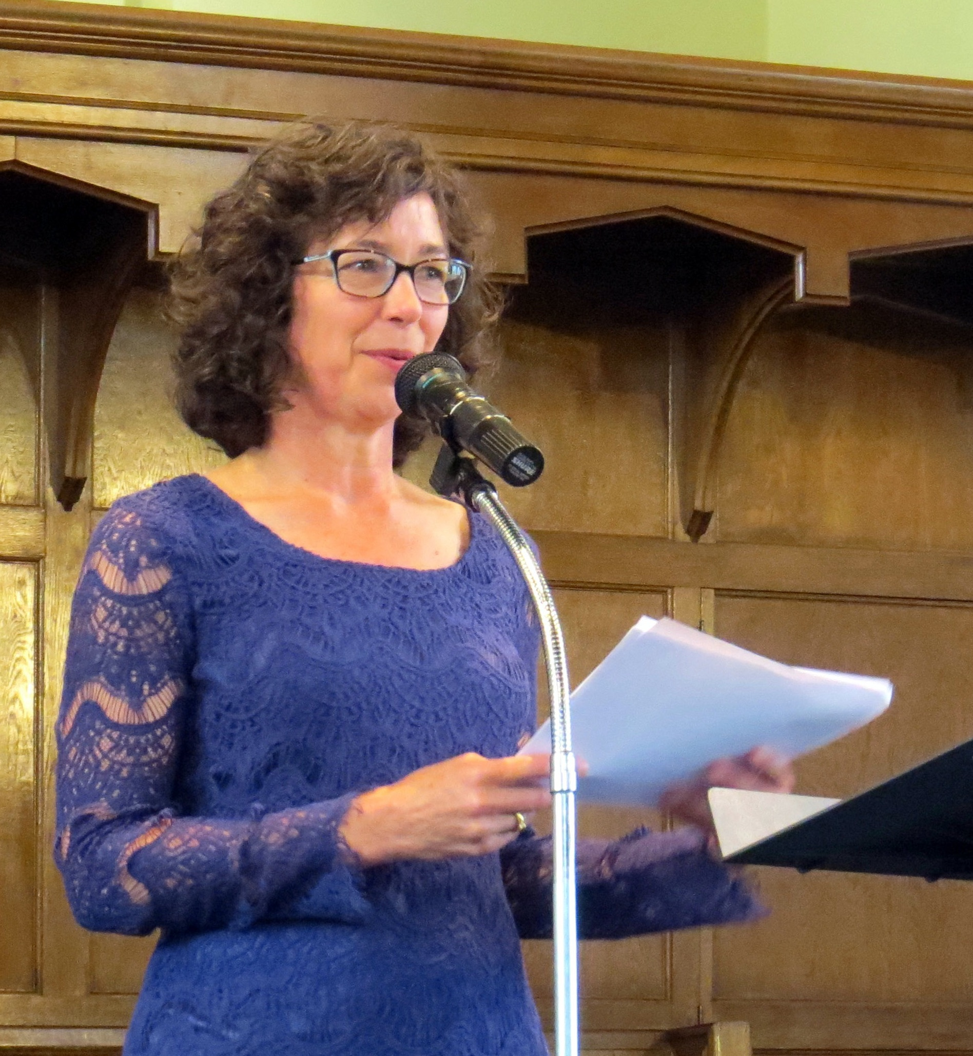 New Zealand poet Sue Wootton, photographed at a reading in Knox Church, Dunedin.